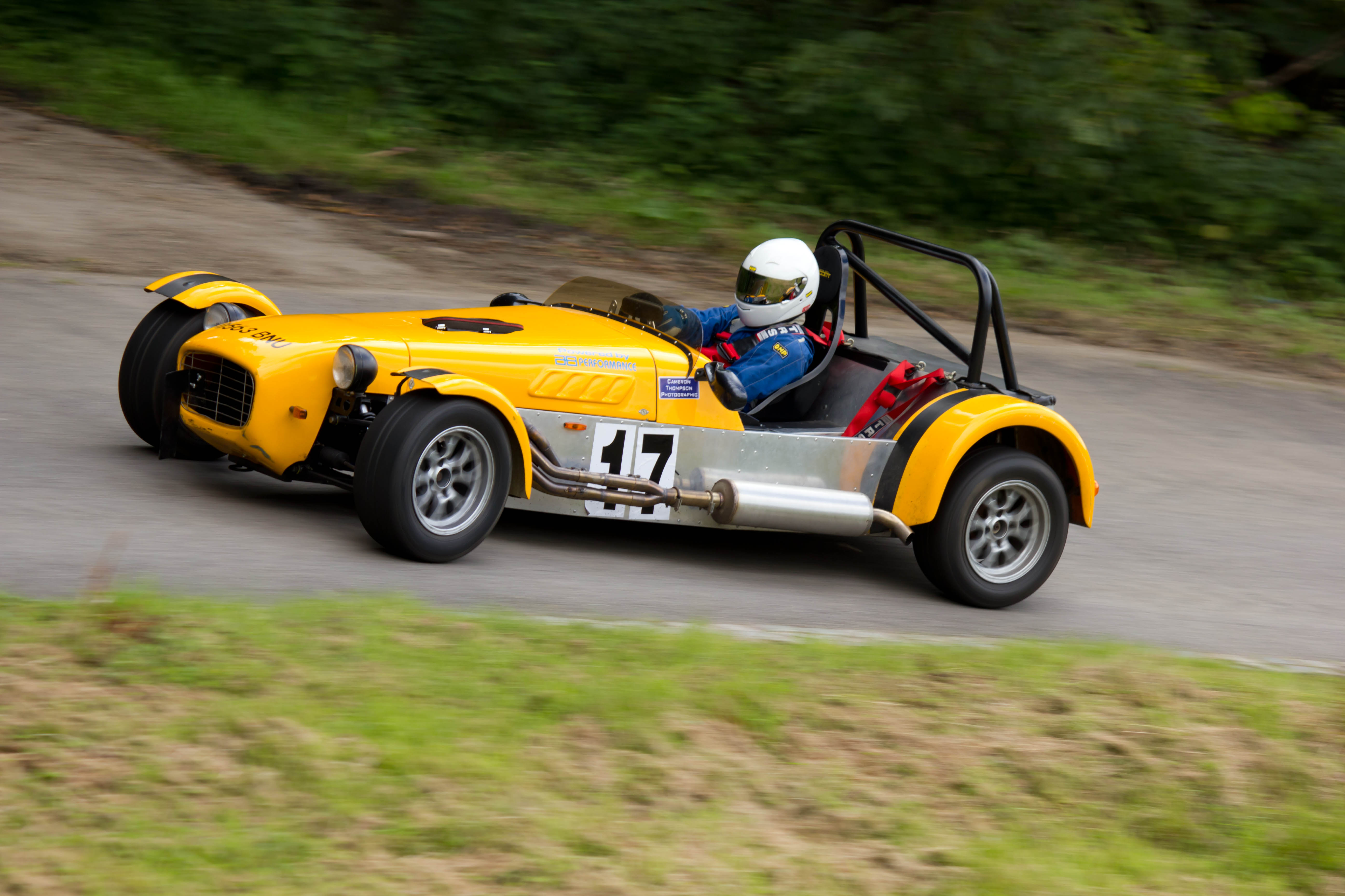 Fintray 21st August-2669.jpg